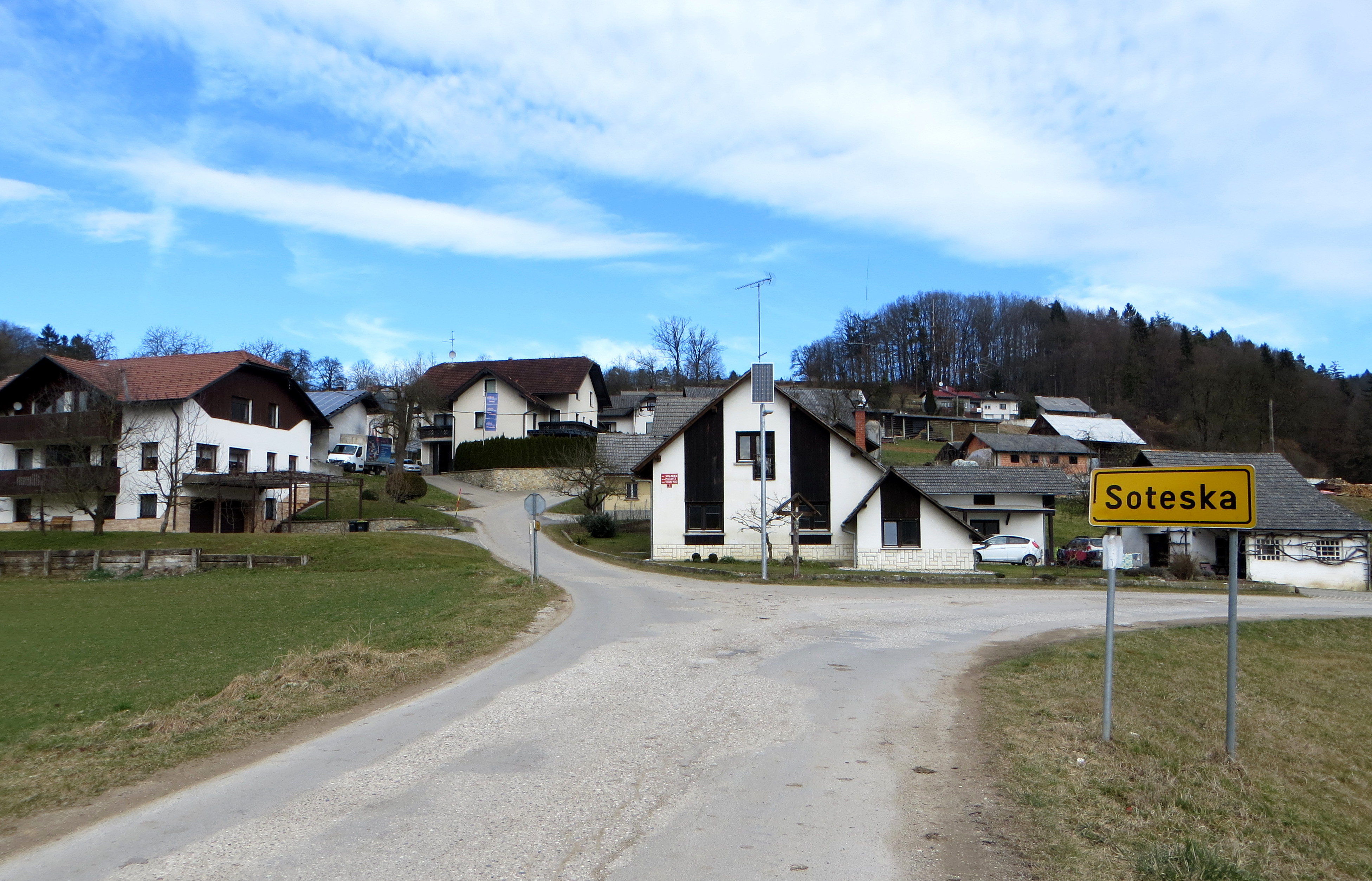 Soteska pri Moravčah, Municipality of Moravče, Slovenia